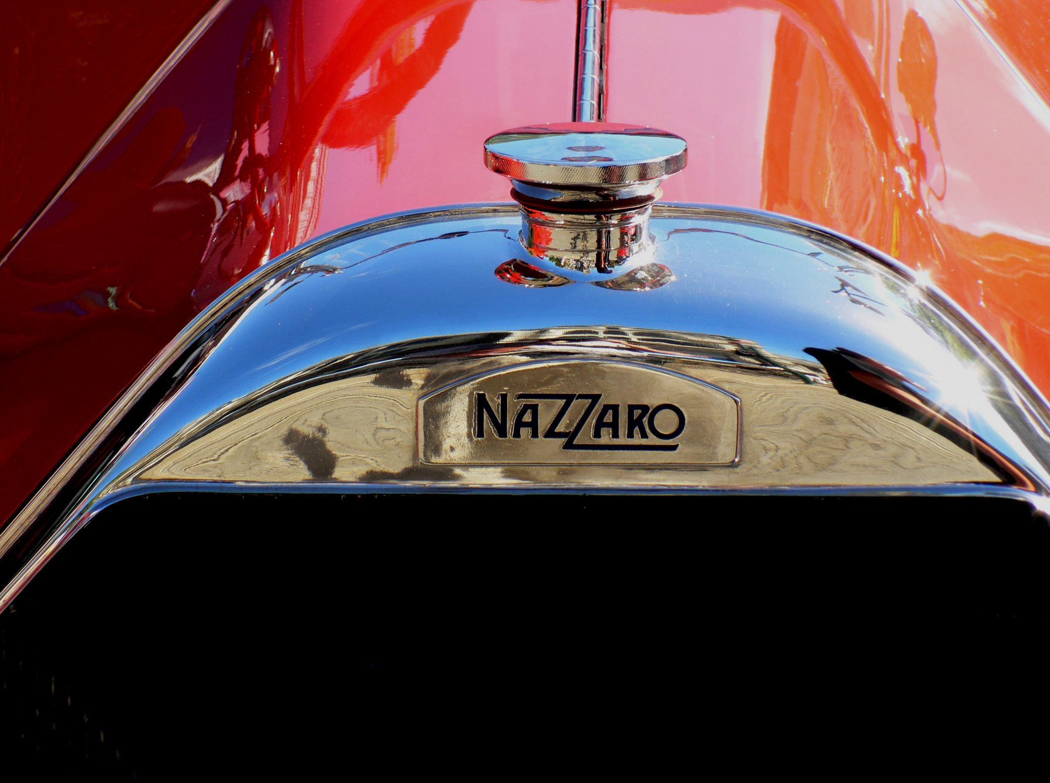 Felice Nazzaro, like many other successful drivers of the period, also wanted to try his hand at producing cars. Thus in 1911, together with some colleagues, he founded "Nazzaro & C.Fabbrica di Automobili" in Turin and produced around 230 vehicles until 1923.